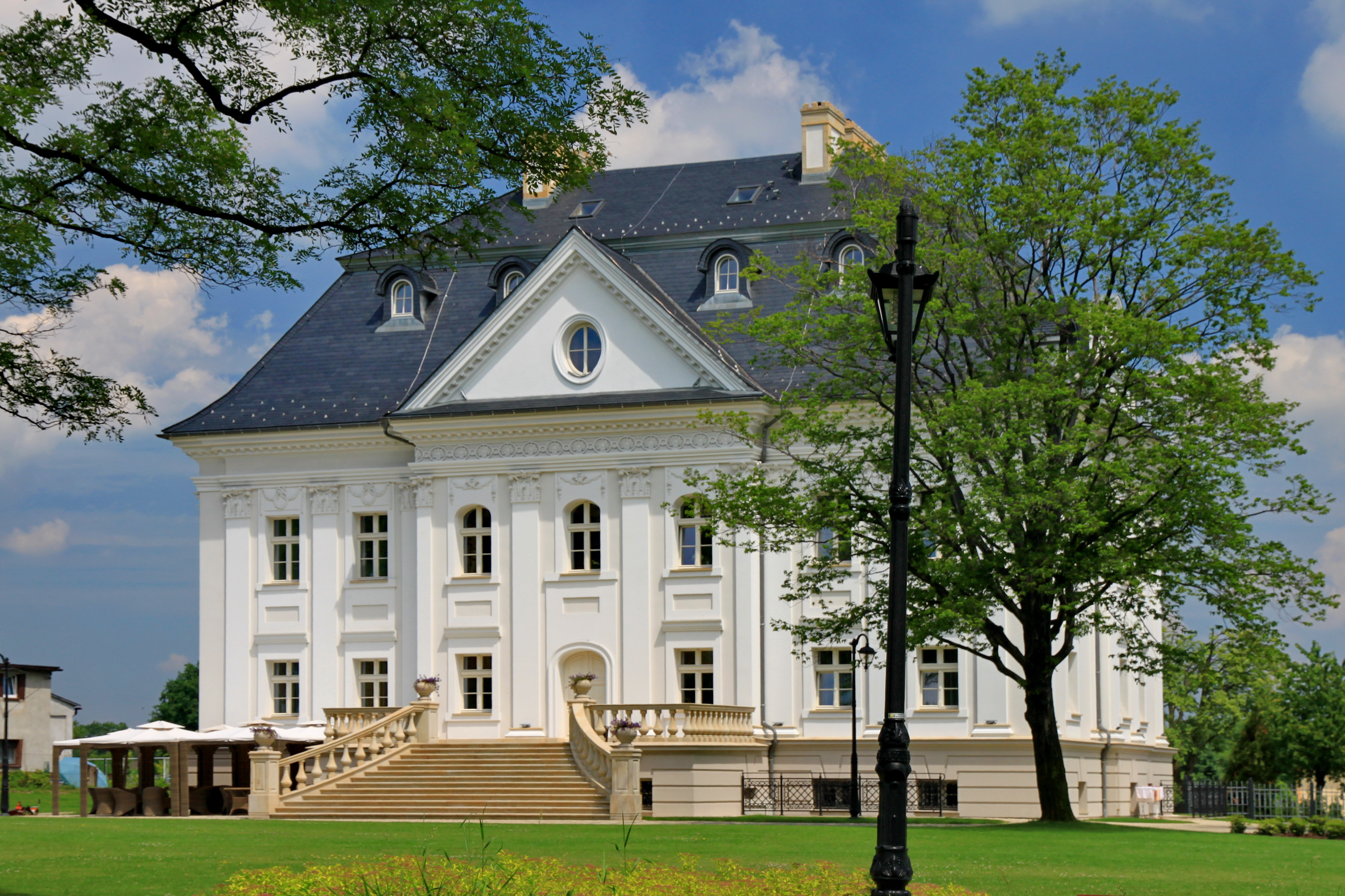 Jastrzębie-Zdrój, palace, 2nd half of 18th century